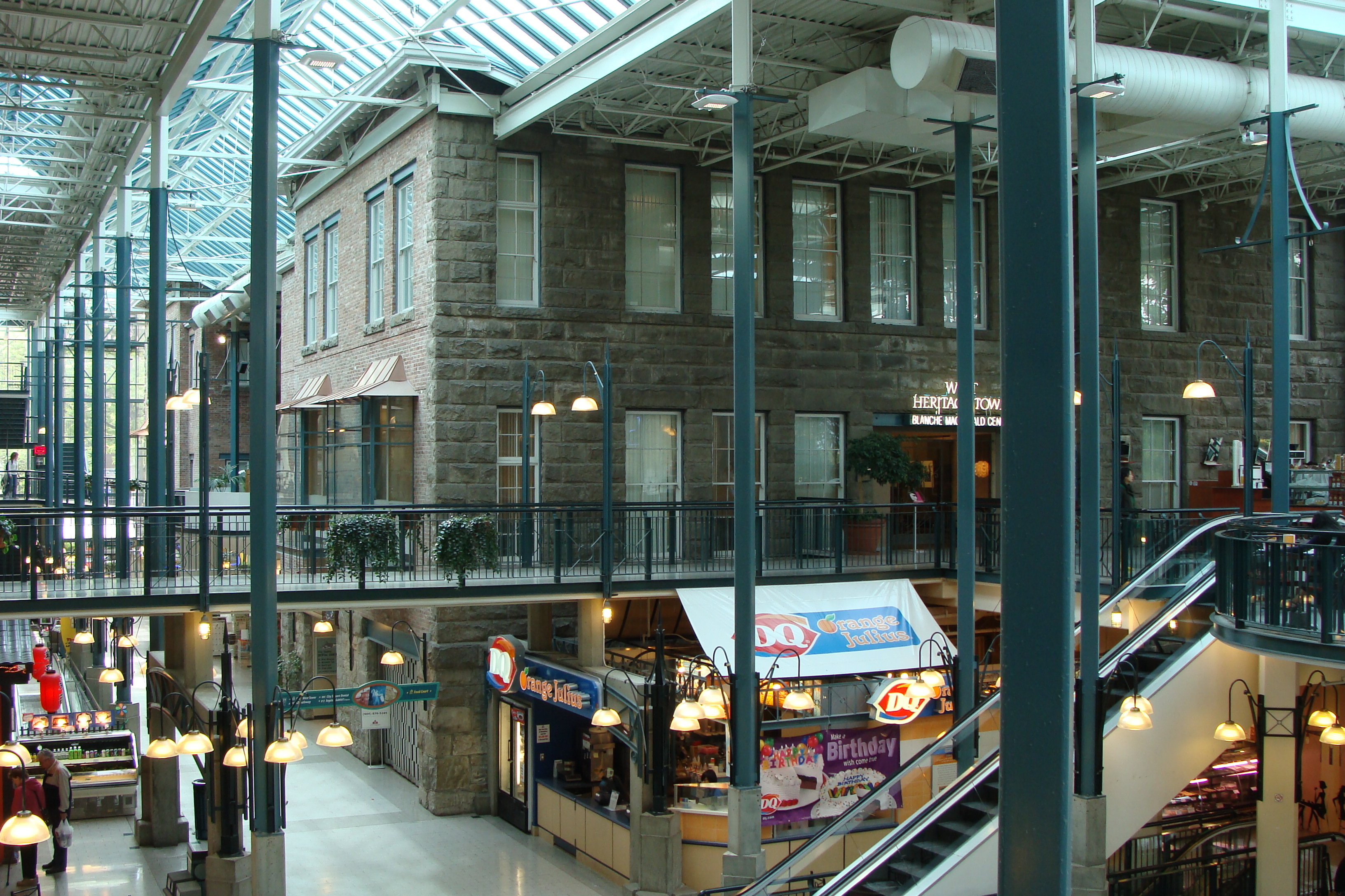 Model School - inside